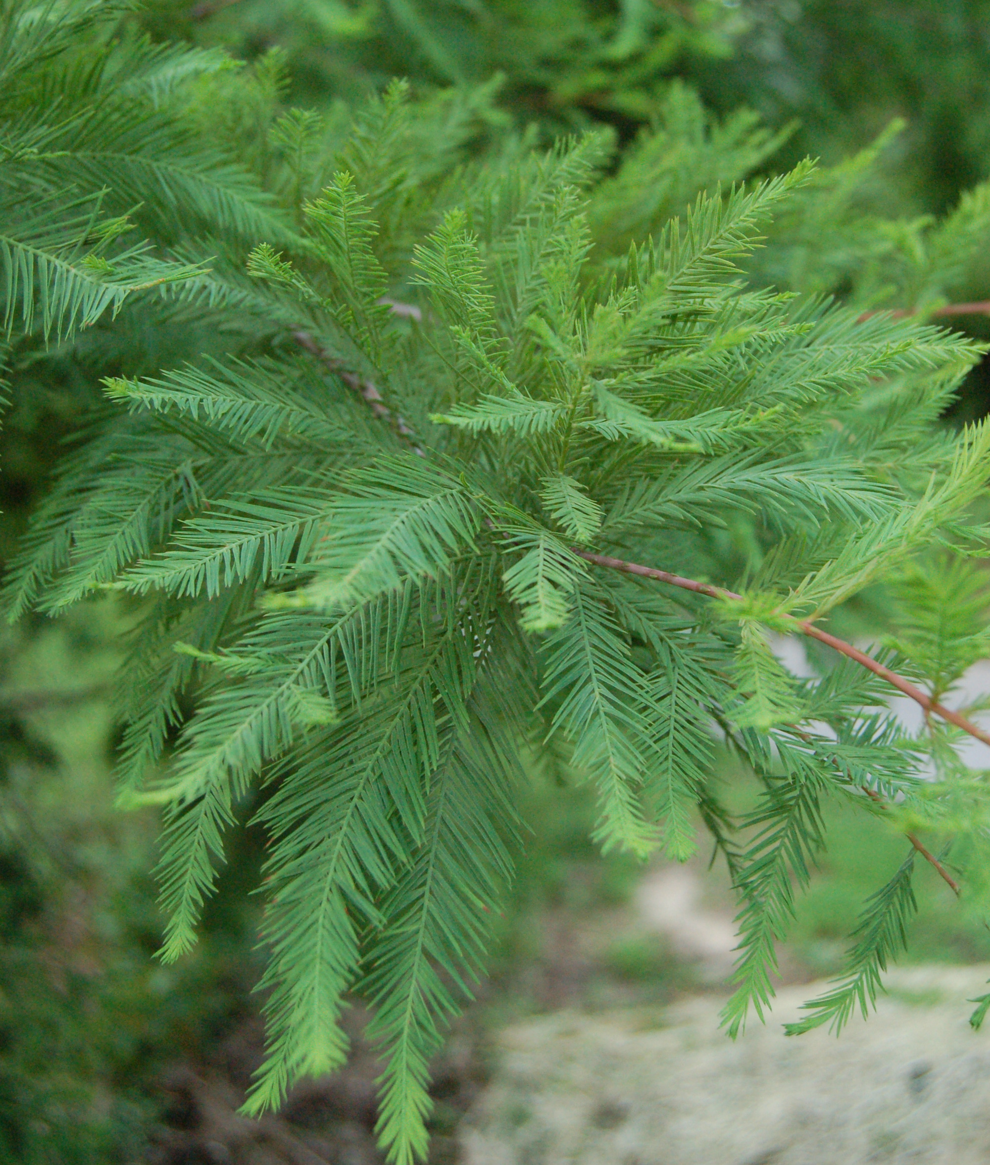 Picture of some of the leaves on the branch of a Bald Cypressen (Taxodium distichum en ). Photo taken in Chester County, Pennsylvania.